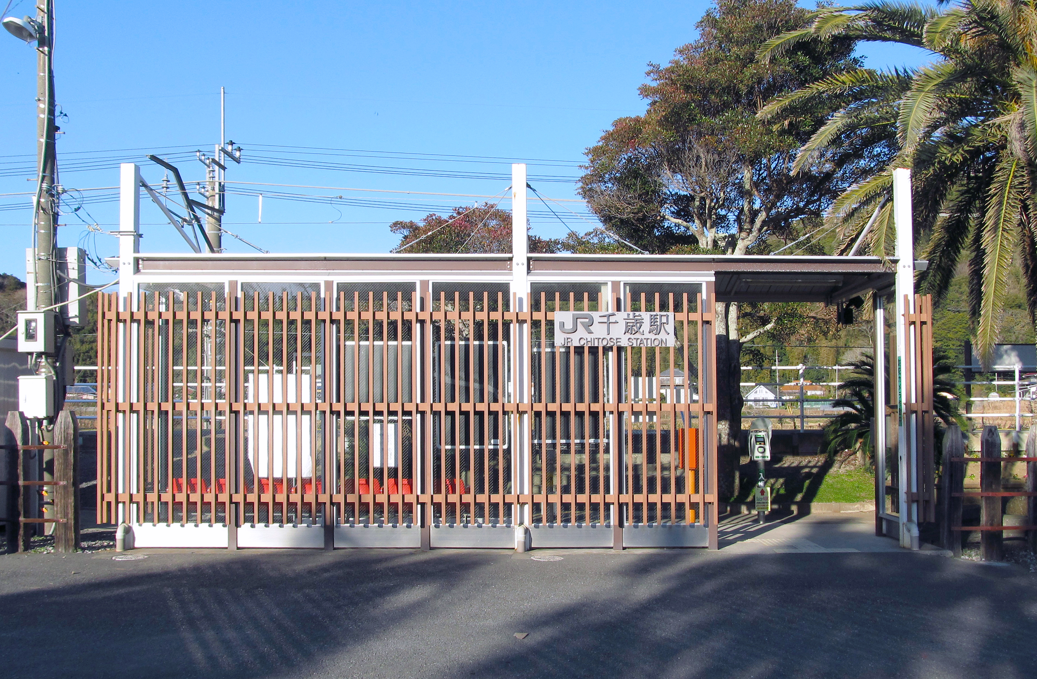 The entrance to Chitose Station on the Uchibō Line in Minamibōsō city, Chiba prefecture, Japan